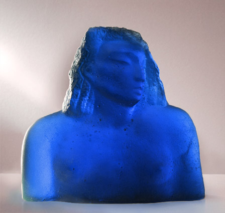 Blue lady - mold melted glass, polished, 28x30x10cm; 7,6kg, made by the Swedish sculptor Lars Widenfalk